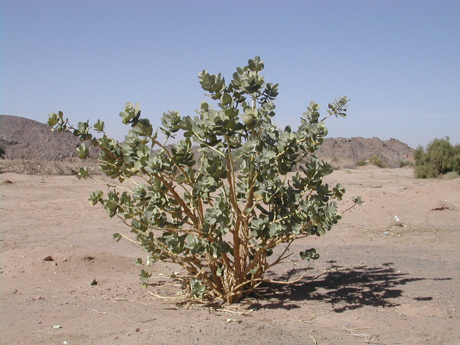 Thora thora (Calotropis procera), Algérie